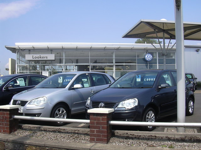 Lookers (Burnley). Angel Garage. Accrington Road. Burnley